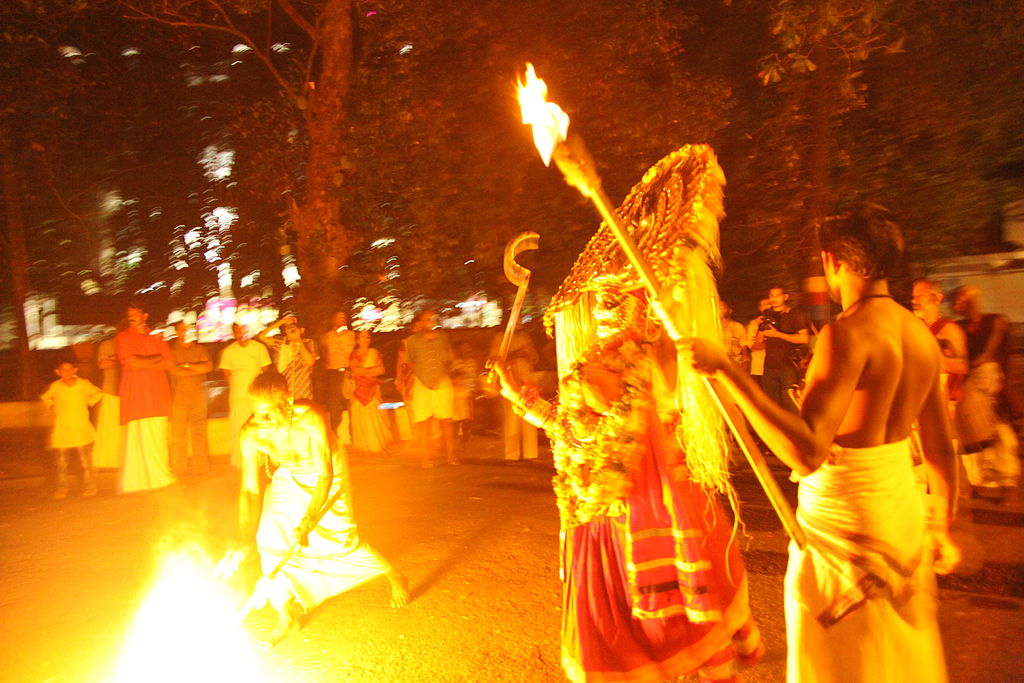 picture of performing mudiyettu